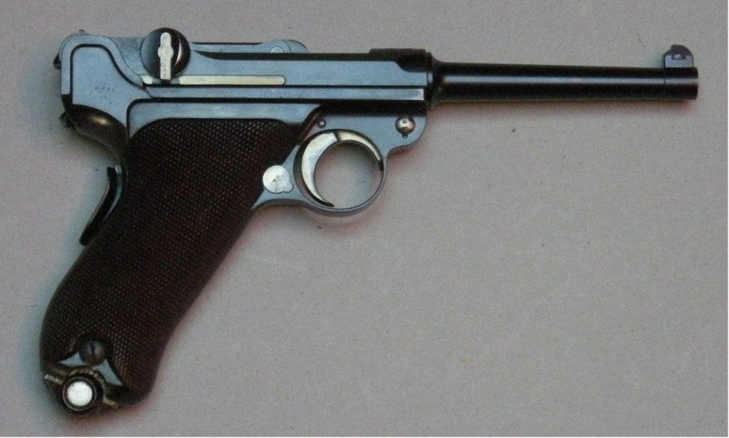 Luger 00 Swiss